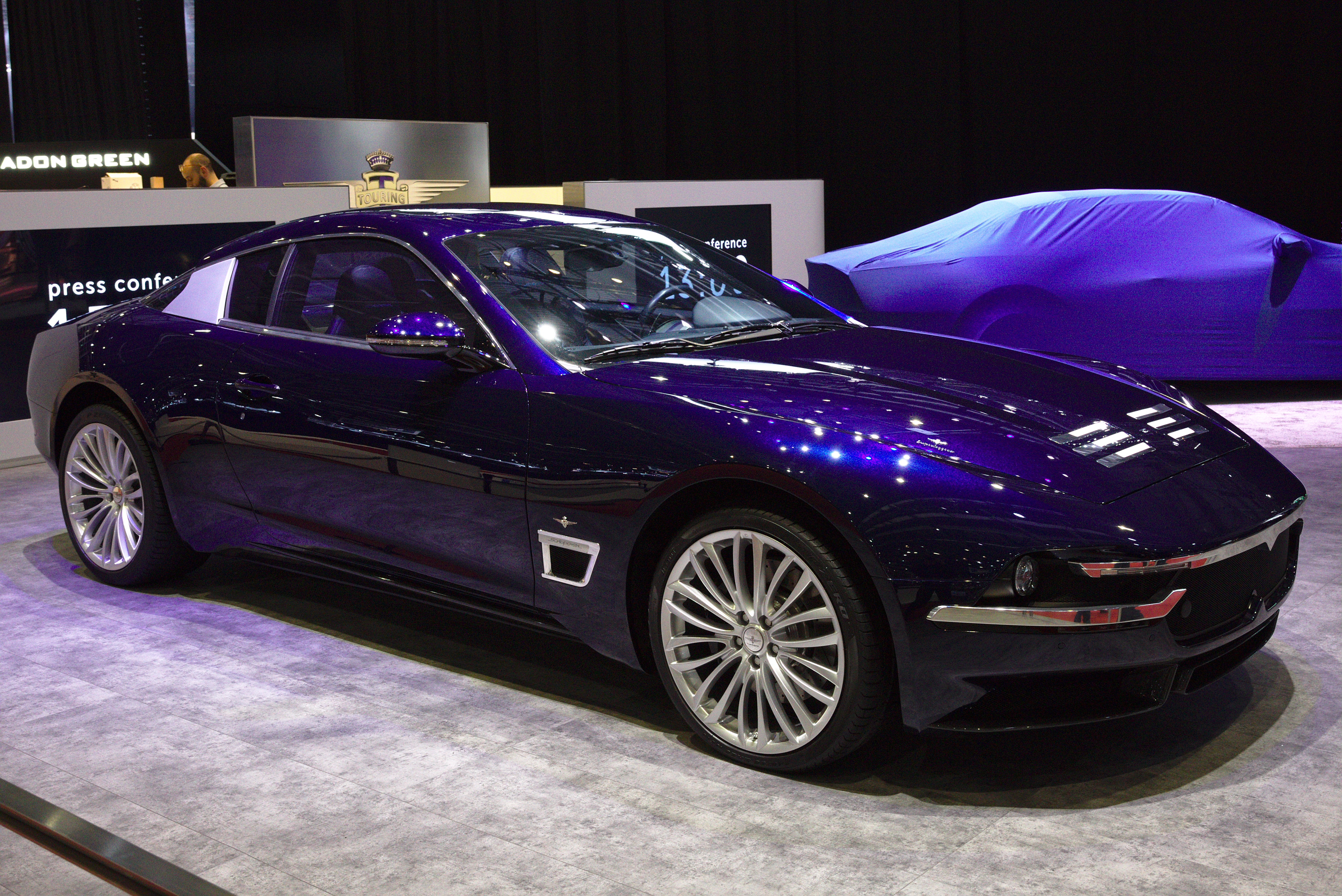 Touring Superleggera Sciàdipersia at Geneva Motor Show 2019